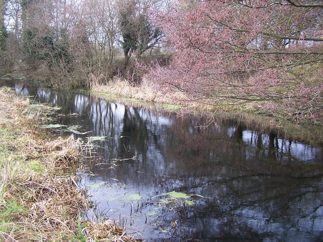 Surviving section of Andover Canal near Nursling. In most places the route of the canal has been built over and in others it is little more than a ditch but for a few metres here, it would almost be possible to navigate a narrowboat...